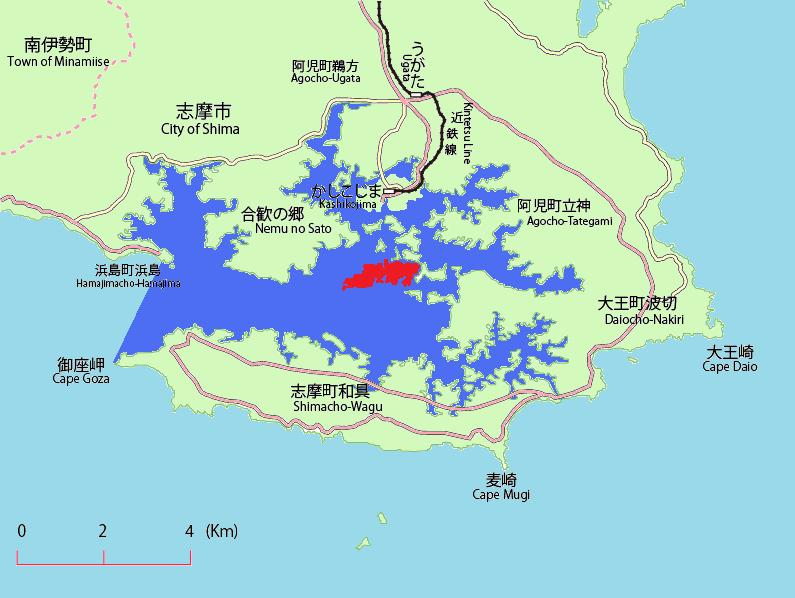 This is the map of Masaki island in Shima,Mie,Japan. Red is Masaki island, Bule is Ago Bay, Aqua is Philippine Sea, Pink is Japan Route, Yellow is Mie prefectural road.